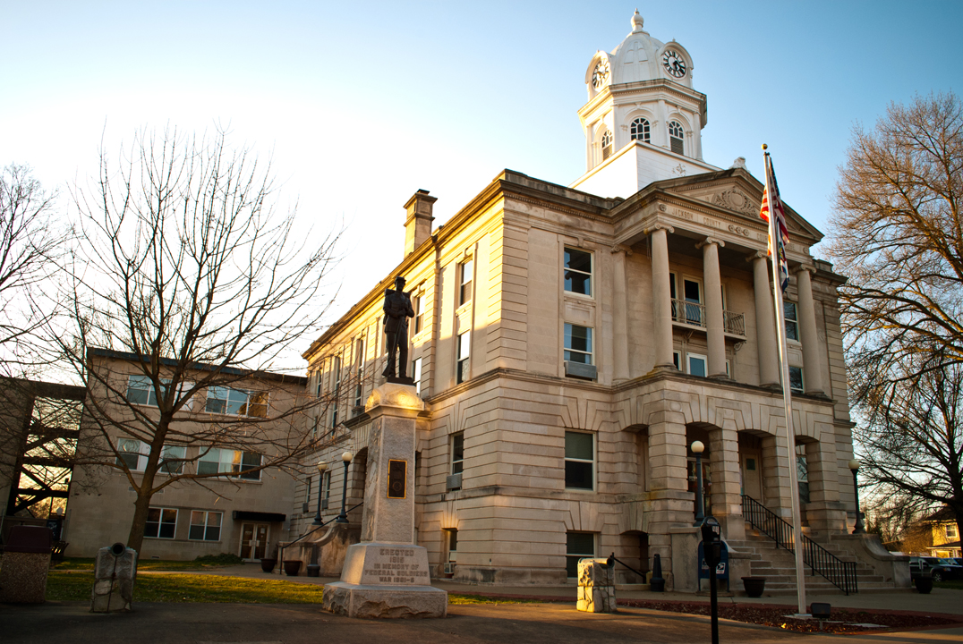 The Jackson County courthouse located in Ripley, West Virginia. Image taken by Robert Jacob Bennett (Jacob Bennett Photography).